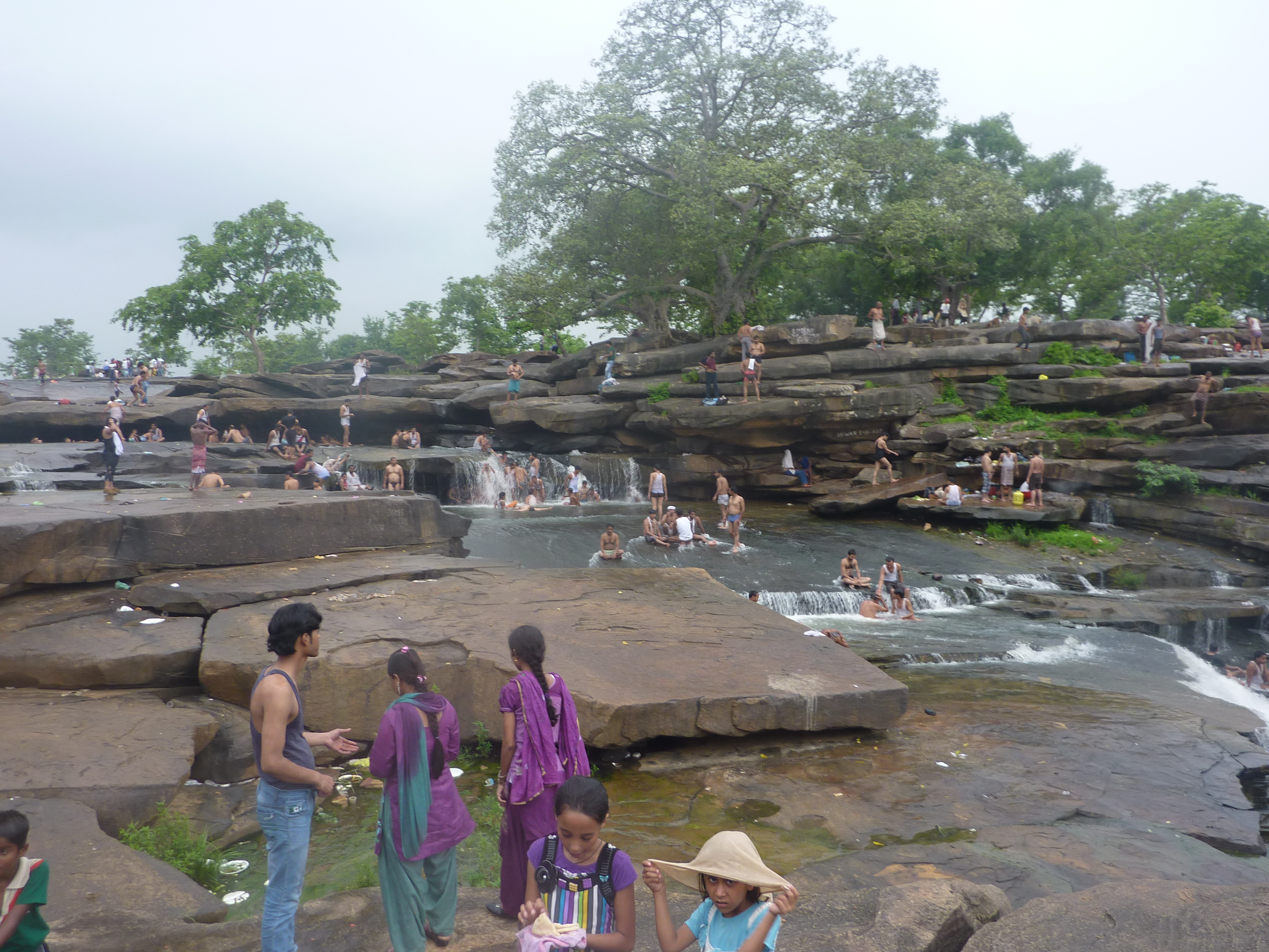 Siddhanath ki Dari Fall in Mirzapur district.